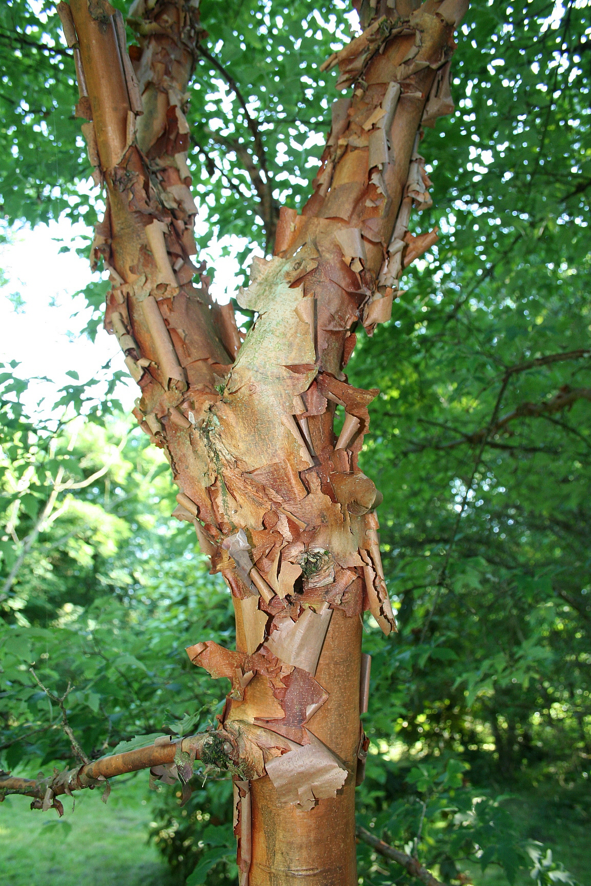 Paperbark Maple (Acer griseum).